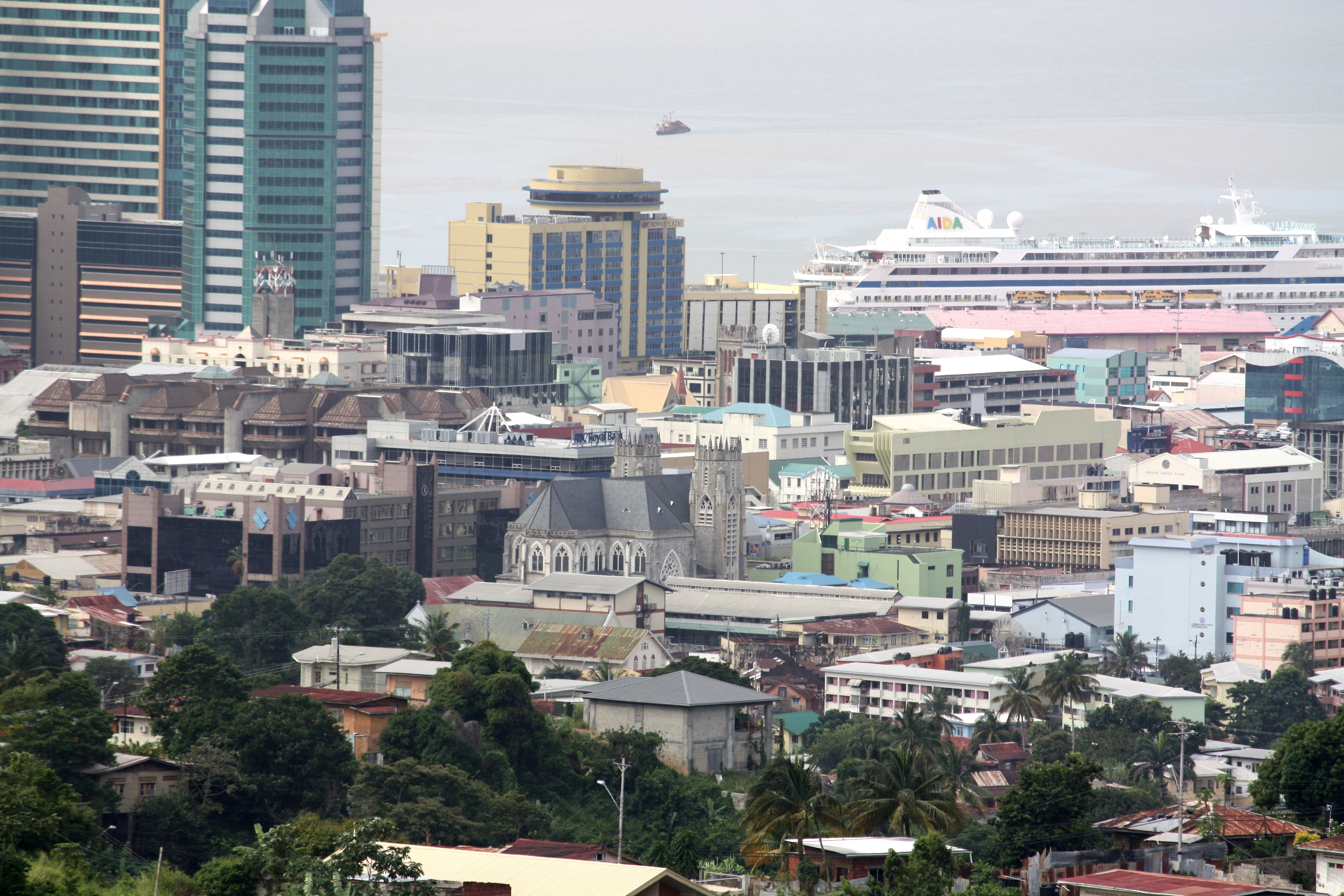 View towards Port of Spain from Lady Young Look Out in Trinidad - Holy Rosary Church is in the middle of the picture and the cruising ship AIDAvita at the port.